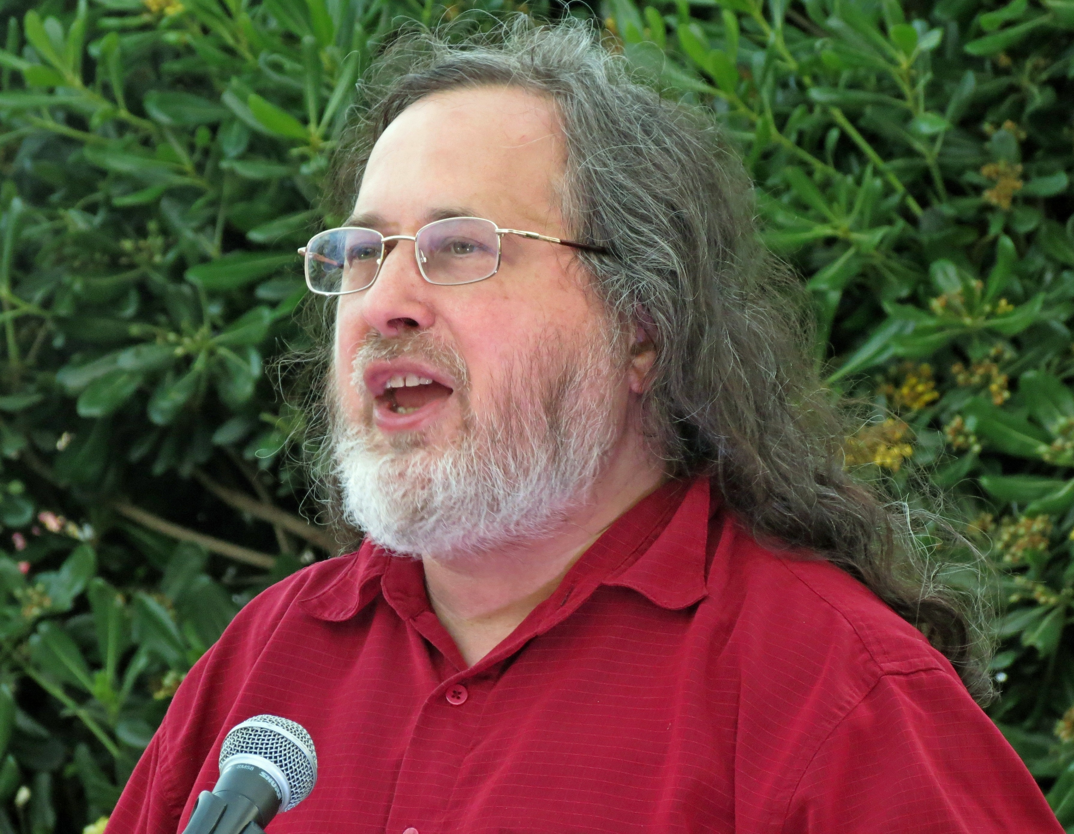 Dr. Richard Stallman talking at CommonsFest 2015 in Athens for "A Free Digital Society"